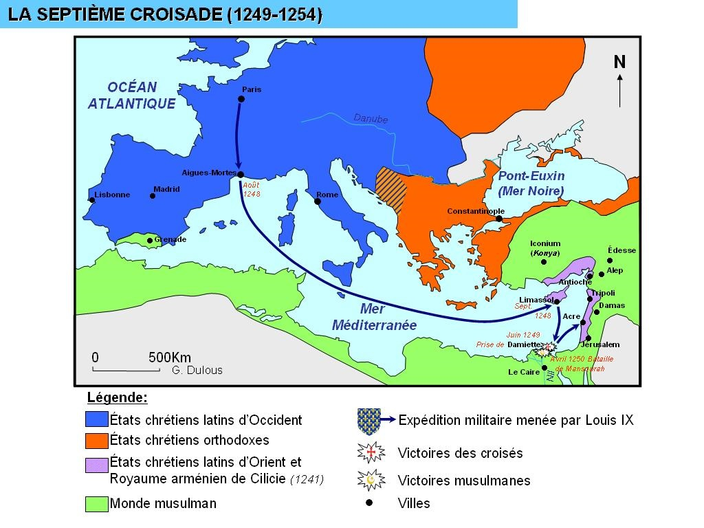 Seventh crusade